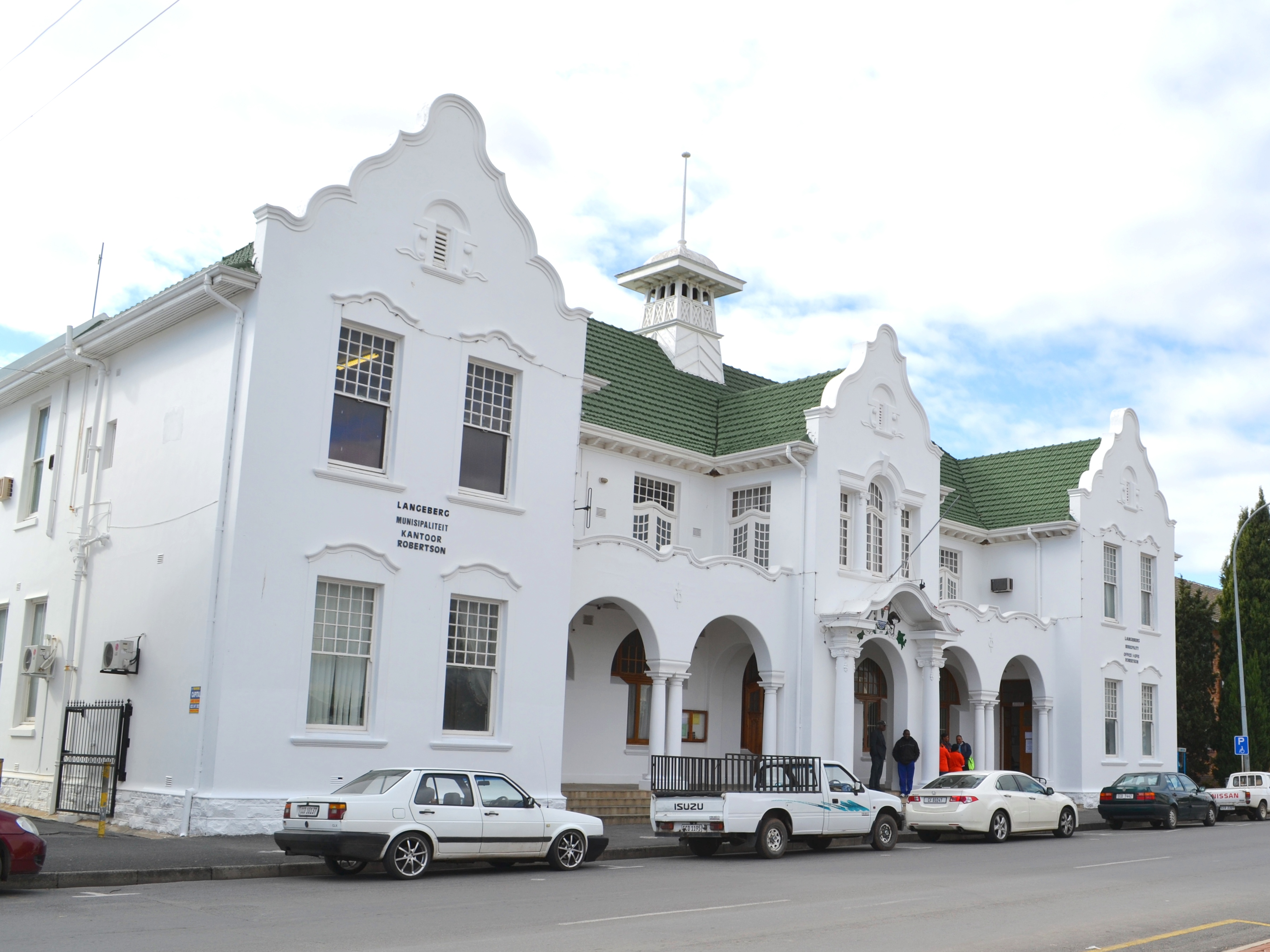 Church Street, Robertson, Western Cape.